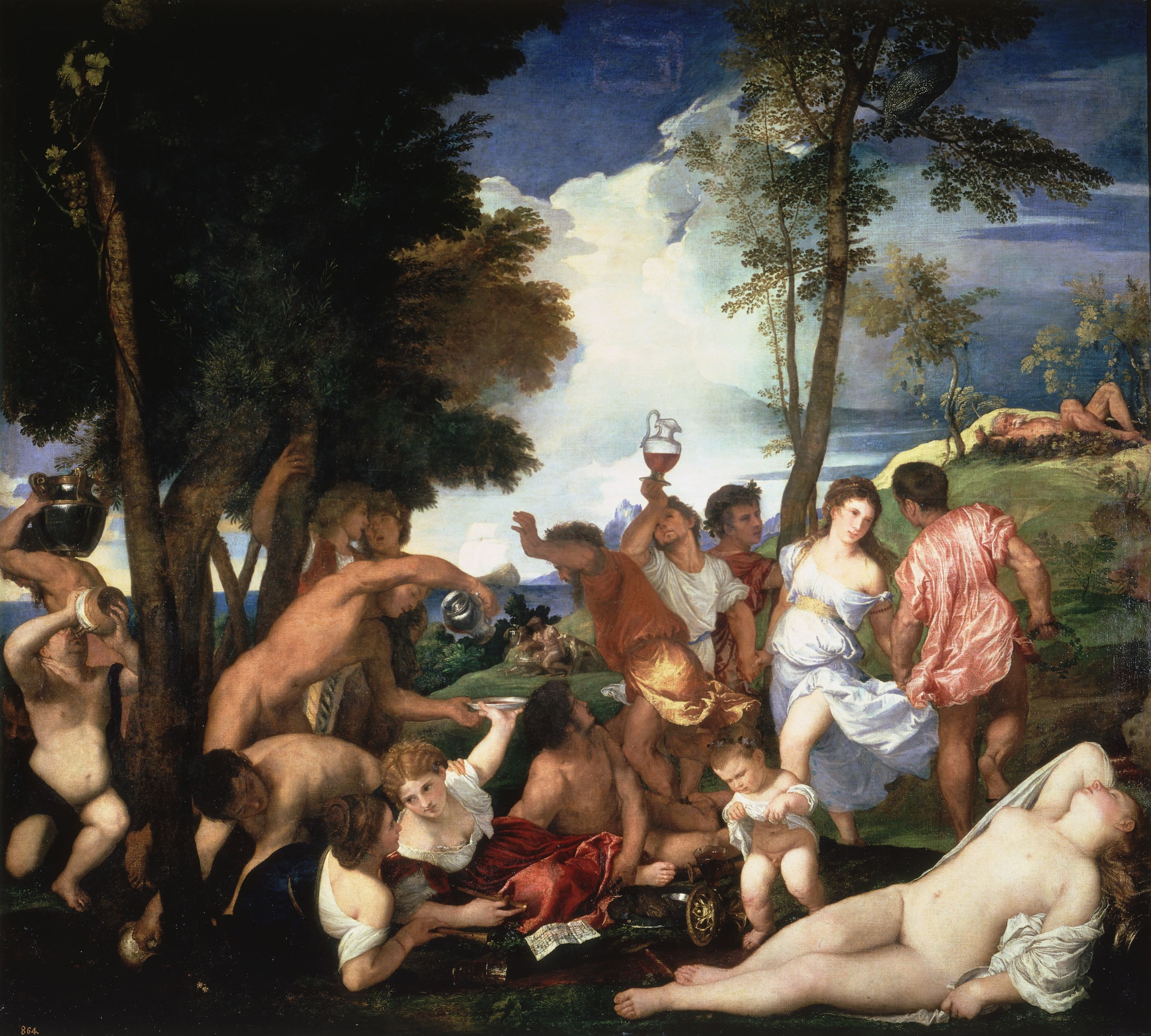 The island of Andros was so favored by Bacchus that a stream flew with wine. Gods, men and children celebrate the effects of wine, whose consumption, in Philostratus´ words, makes men rich, dominant, generous to their friends, handsome and four cubits high. A nude nymph lies in the foreground, and Silenus in the background. The music on the score in the lower center of the composition has been attributed to Adriaen Willaert, a Flemish composer active in the Court of Ferrara. Its lyrics, Qui boyt et ne reboyt il ne seet que boyre soit (“He who drinks and doesn't drink again, doesn't know what drinking is”.) refer to the celebration of wine.